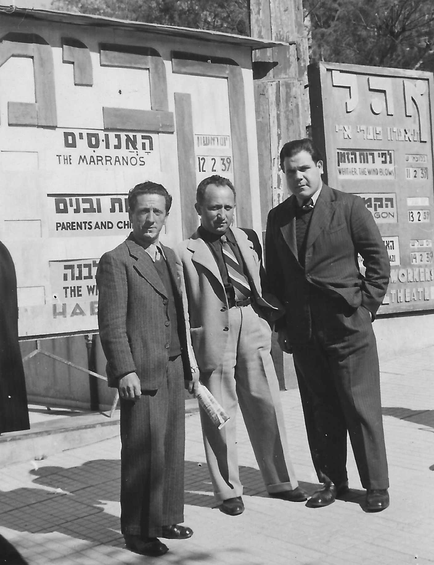 Yiddish writers Joseph Papiernikov, S. L. Shneiderman and Abraham Lis, Tel Aviv 1937